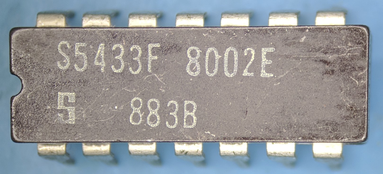 Package top of a Signetics 5433 chip, datecode 8002.